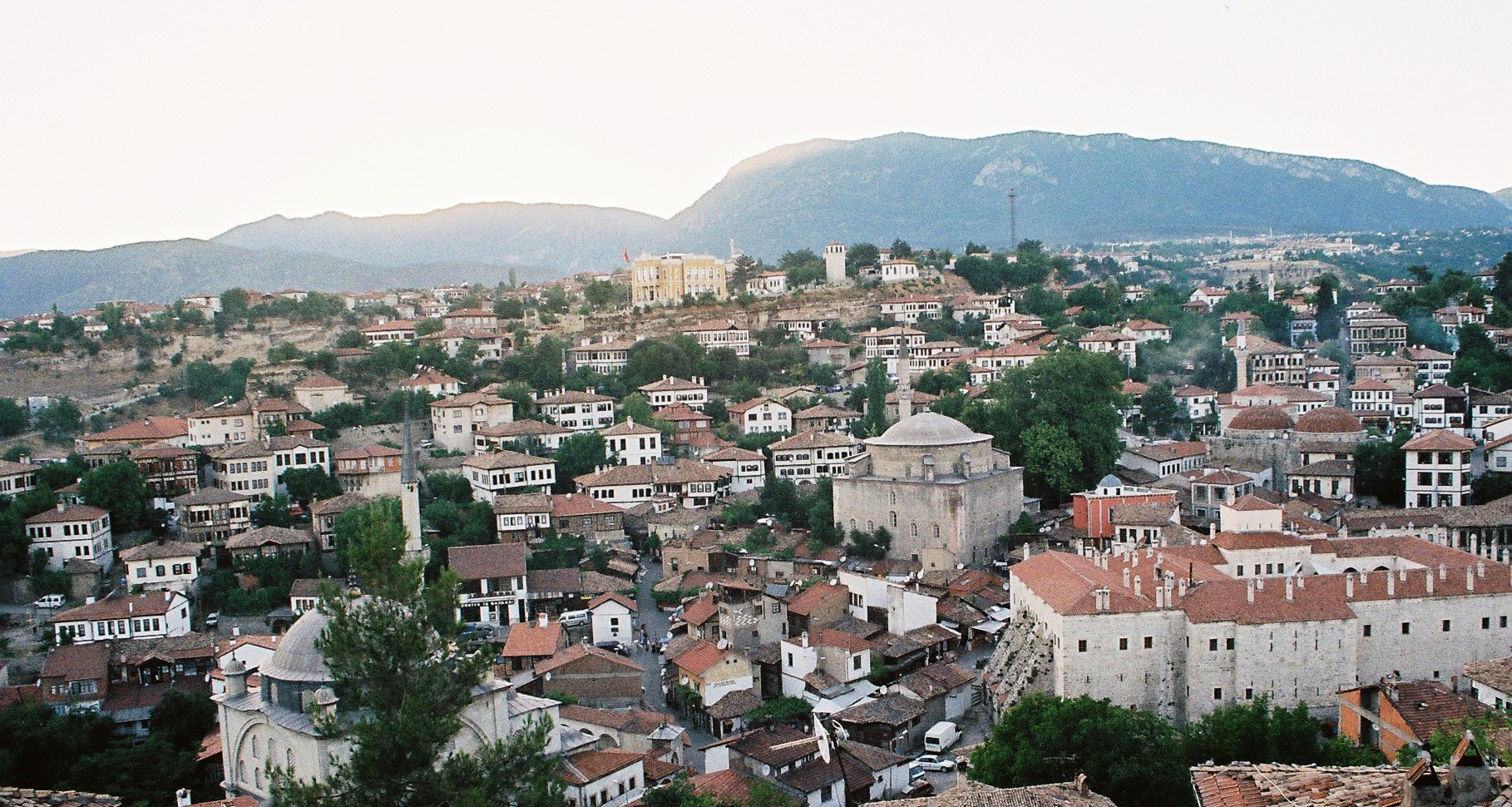 Safranbolu, general view of town